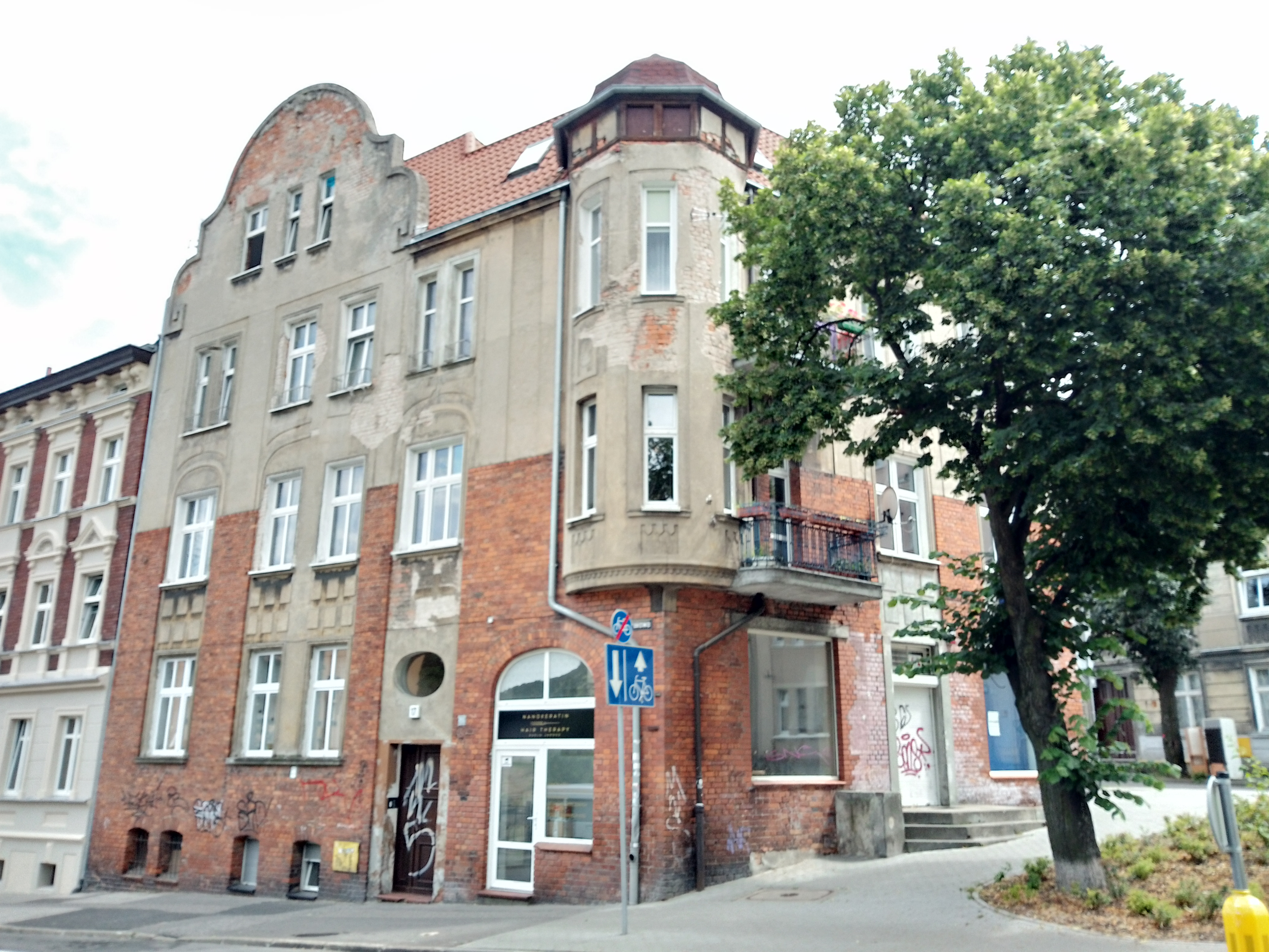 House at 17 Wiatrakowa